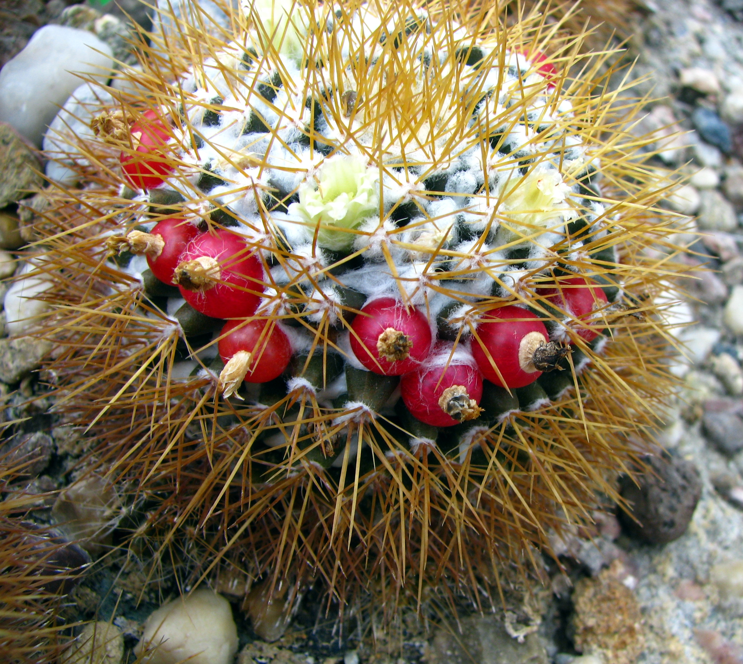 Mammillaria nivosa flowers and fruit, cultivated in Wrocław University Botanical Garden, Poland.